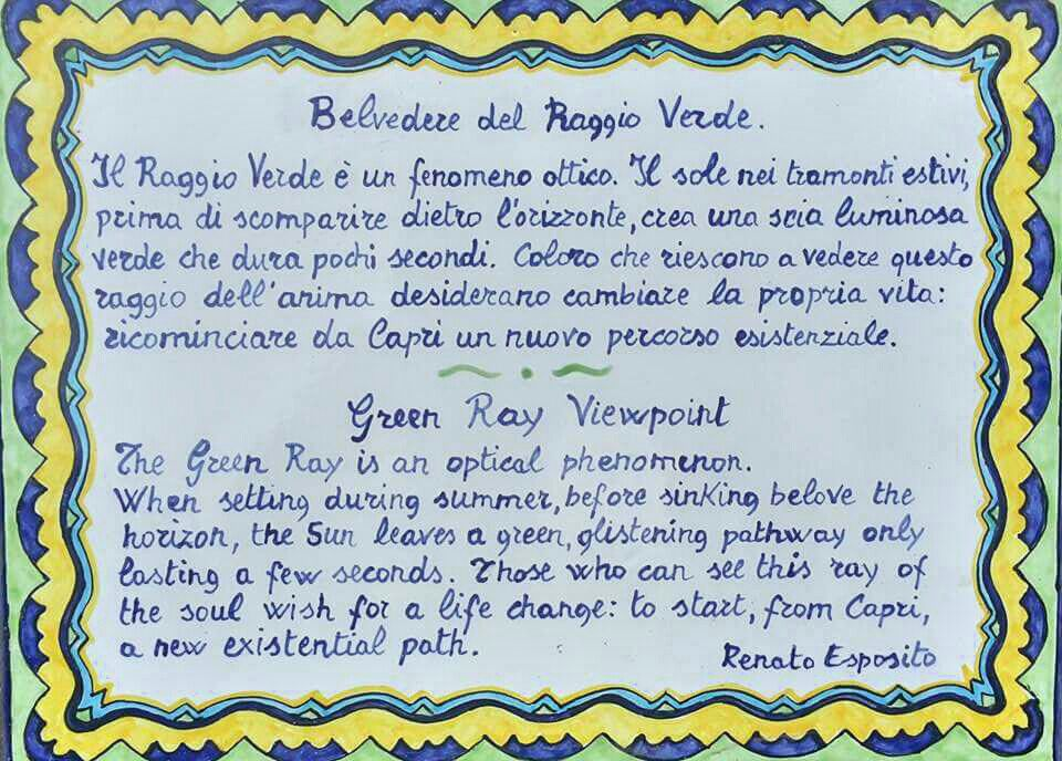 Belvedere del Raggio Verde